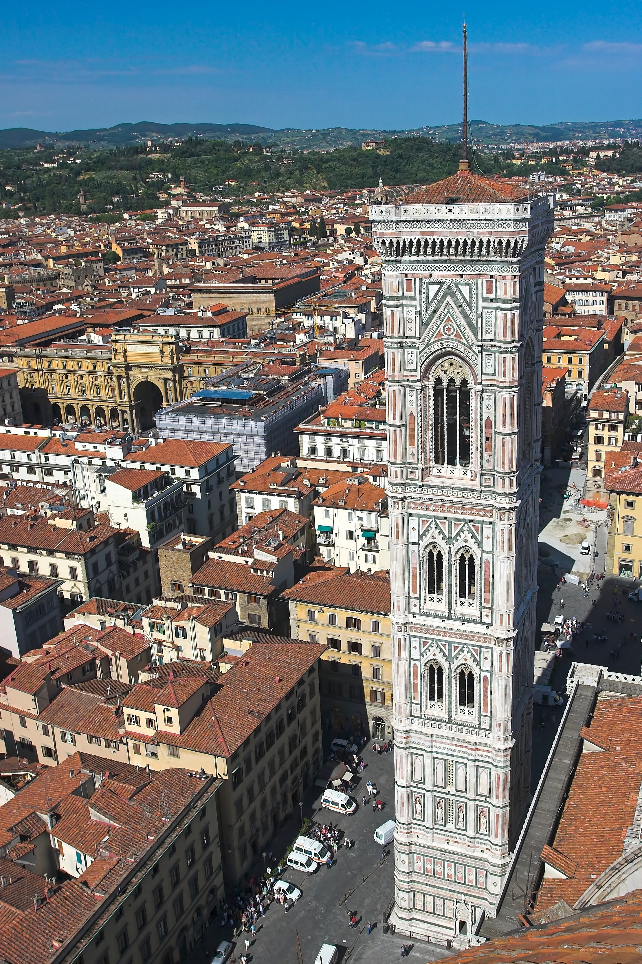 Giotto's belltower (campanile) in Florence, Italy.